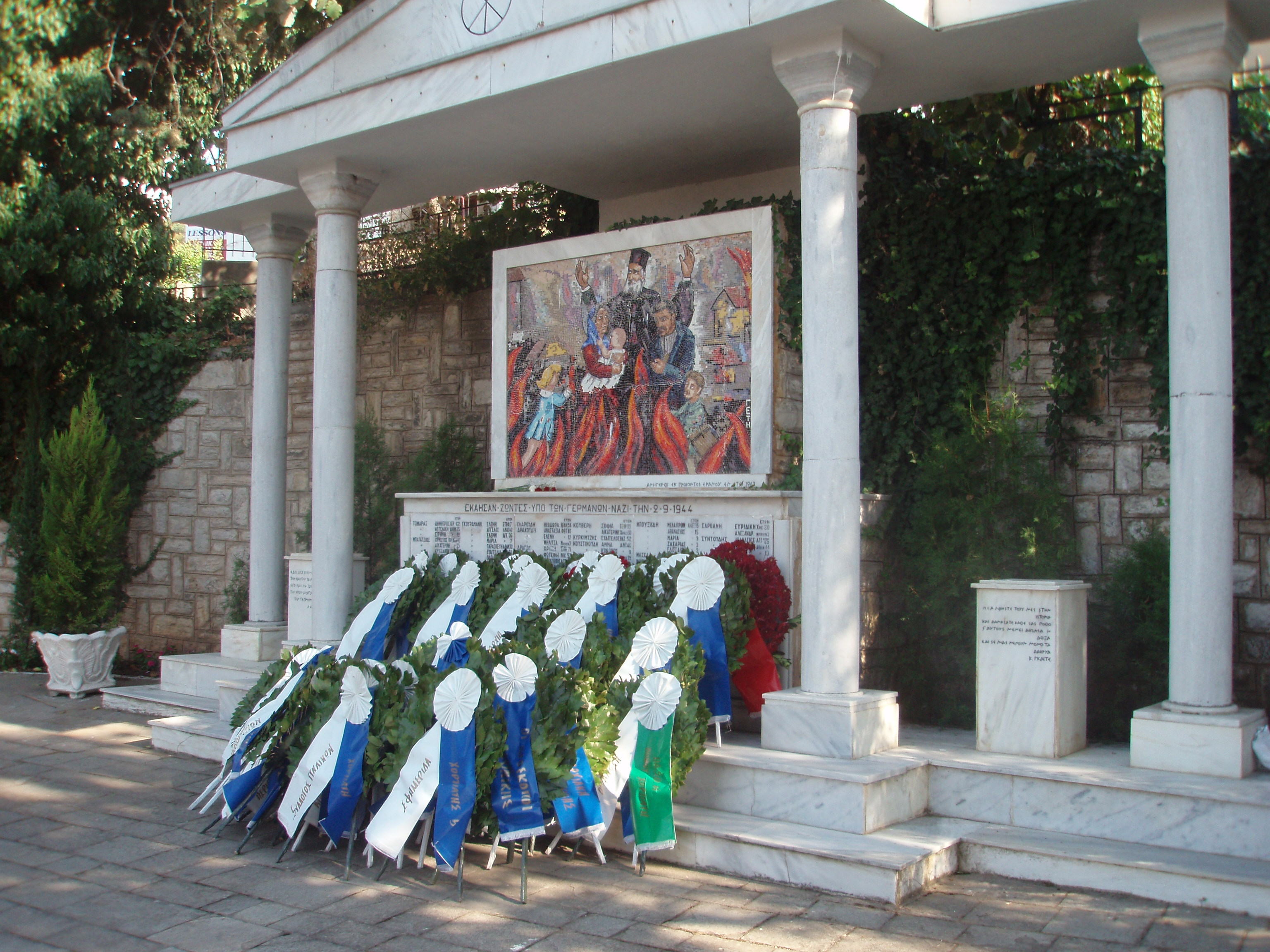 Memorial for the massacre of Chortiatis, Thessaloniki prefecture, Region of Central Macedonia, Greece. The massacre was committed on September 2nd, 1944 by German occupation troops and Greek collaborating forces and caused 149 people of the village Chortiatis to succumb. Picture was taken one day after memorial service with lying wreaths beside memorial, including one of the German General Consul in Thessaloniki.